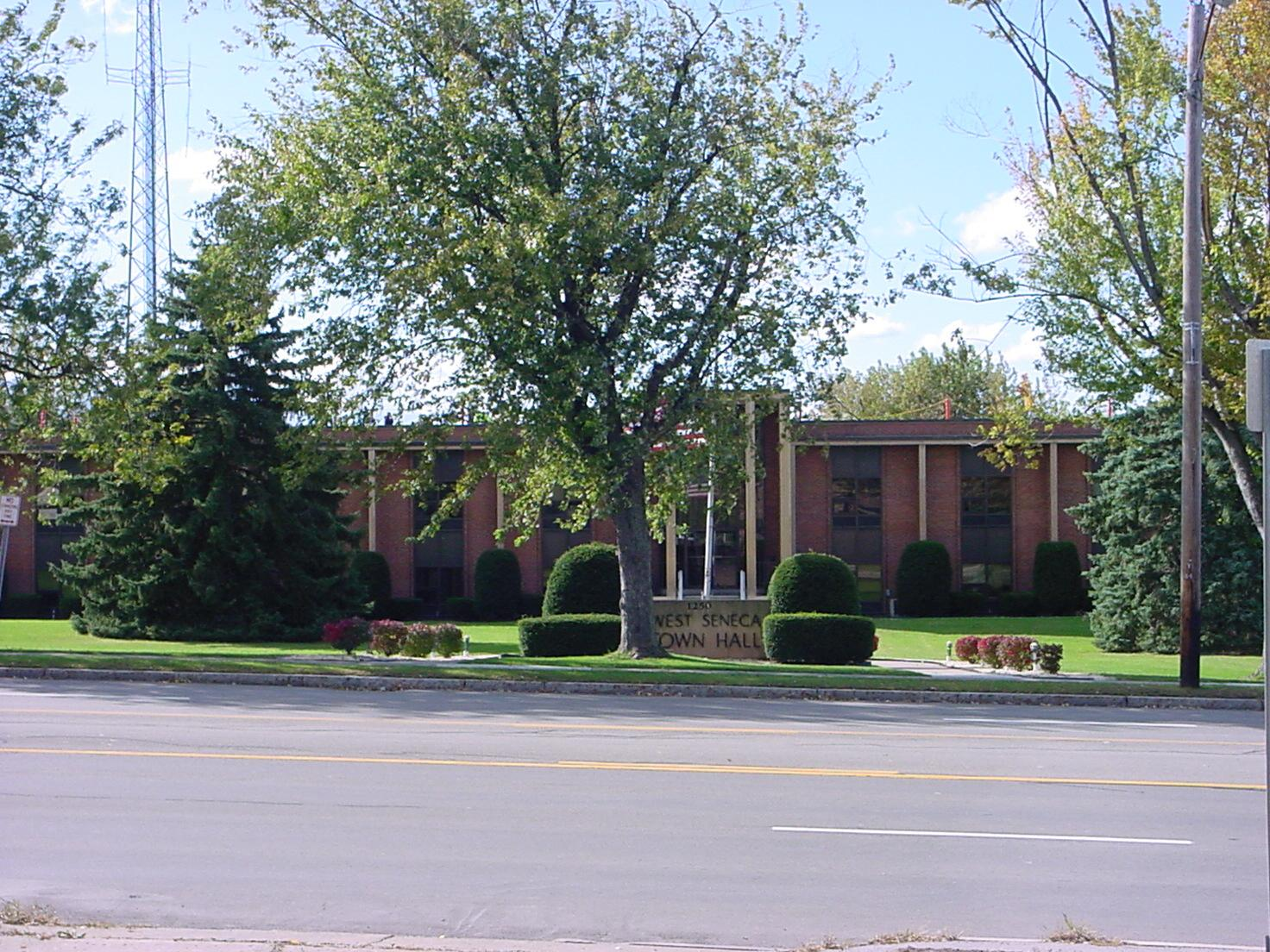 Photo of the West Seneca, New York Town Hall building.